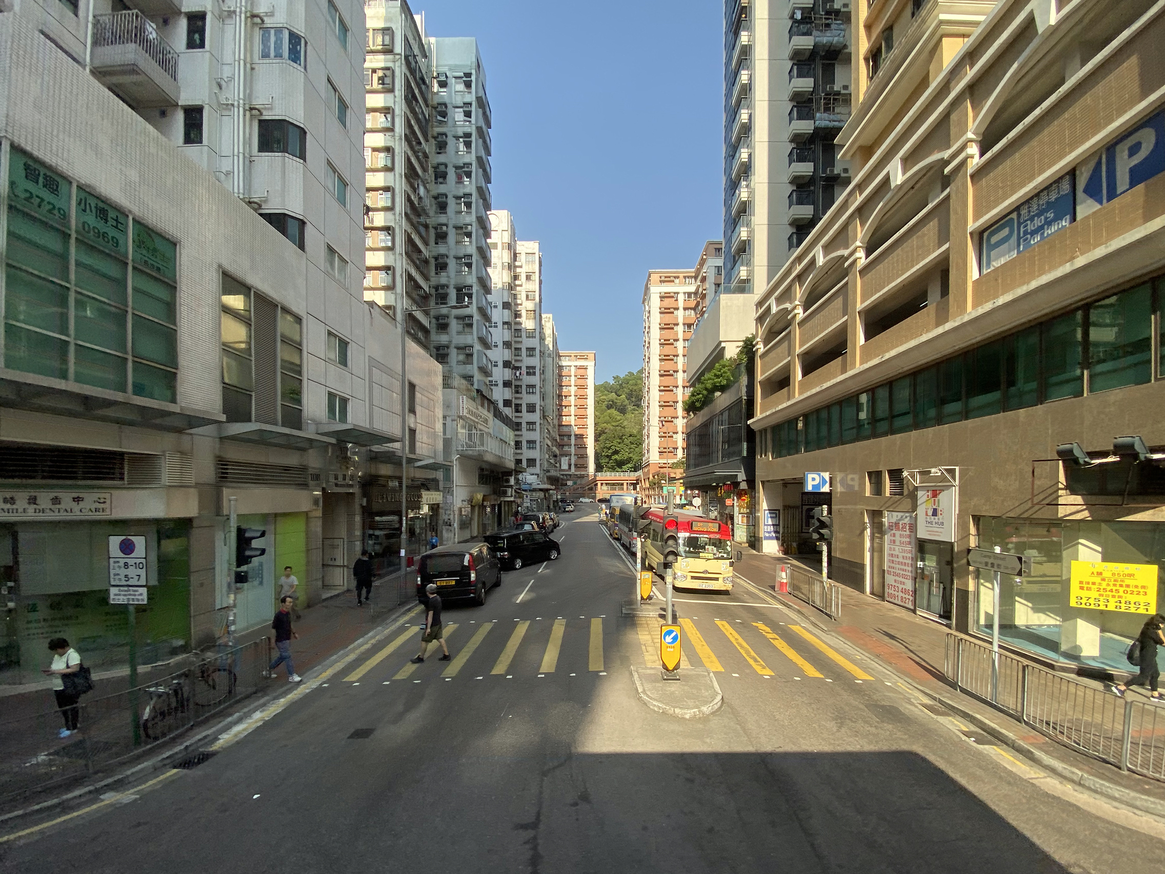 Camp Street